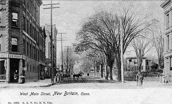 Postcard picture of West Main Street, New Britain, Connecticut, pre-1907.